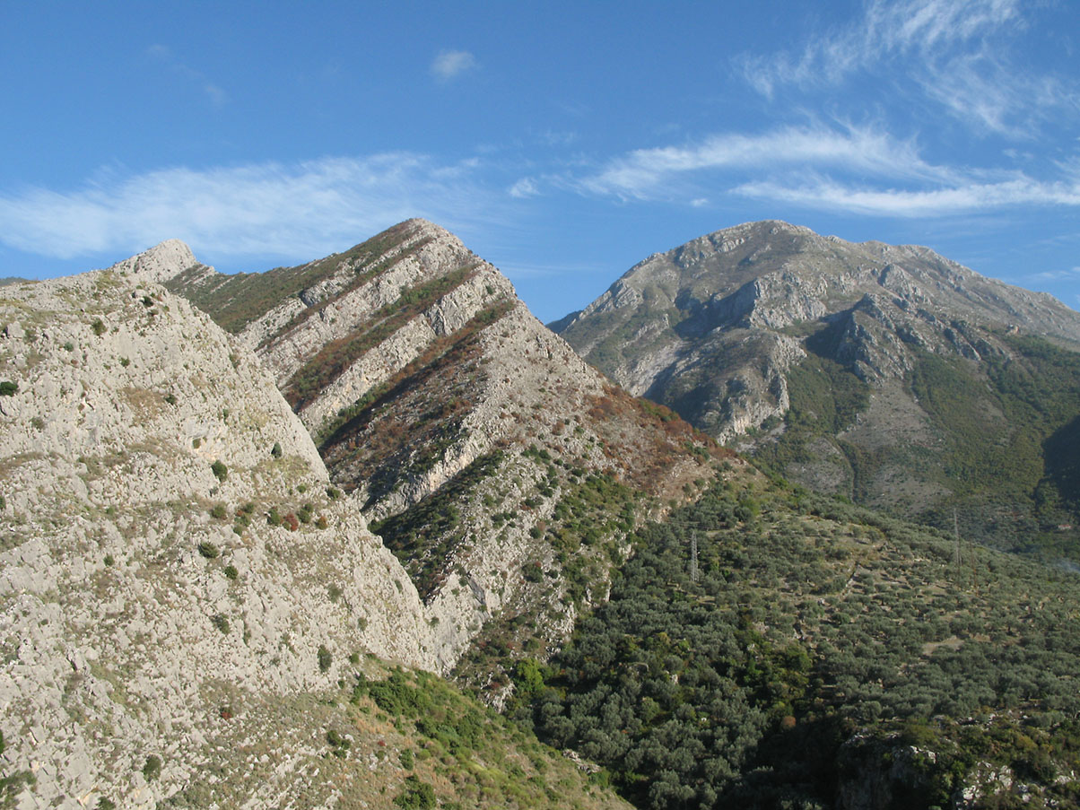 The hills above Old Bar and Rumiya mountain in the distance, Montenegro.